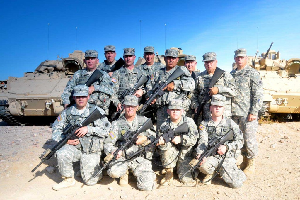 drills